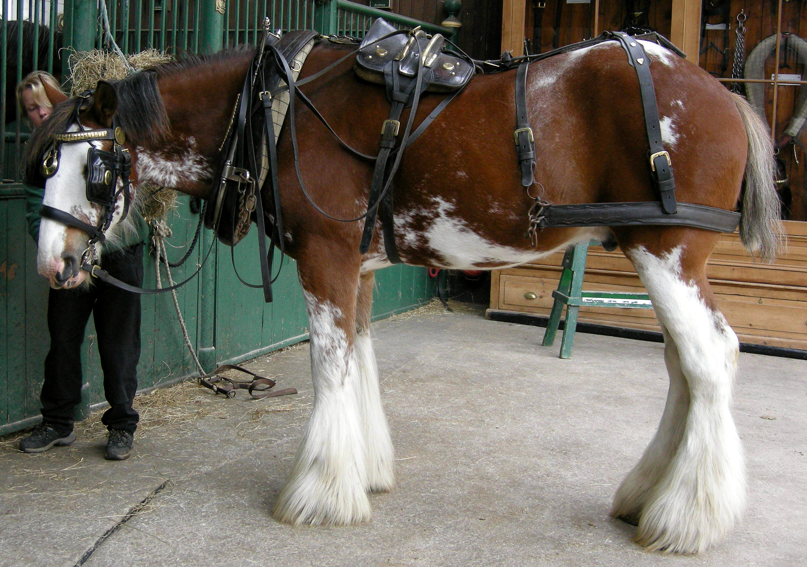 Dray horse being harnessed at Bradford Industrial Museum, Bradford, West Yorkshire, England.